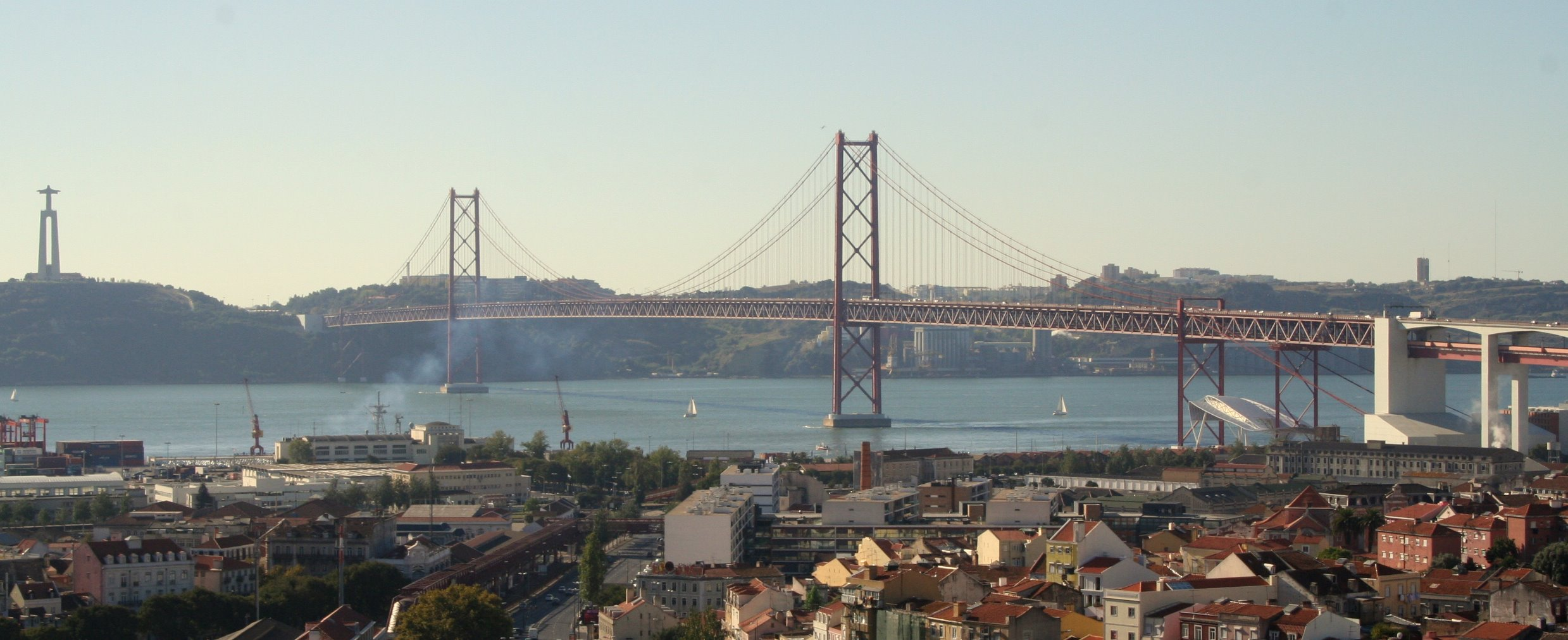 25 de Abril bridge panorama. As seen from Prazeres Cemitery, Lisbon.